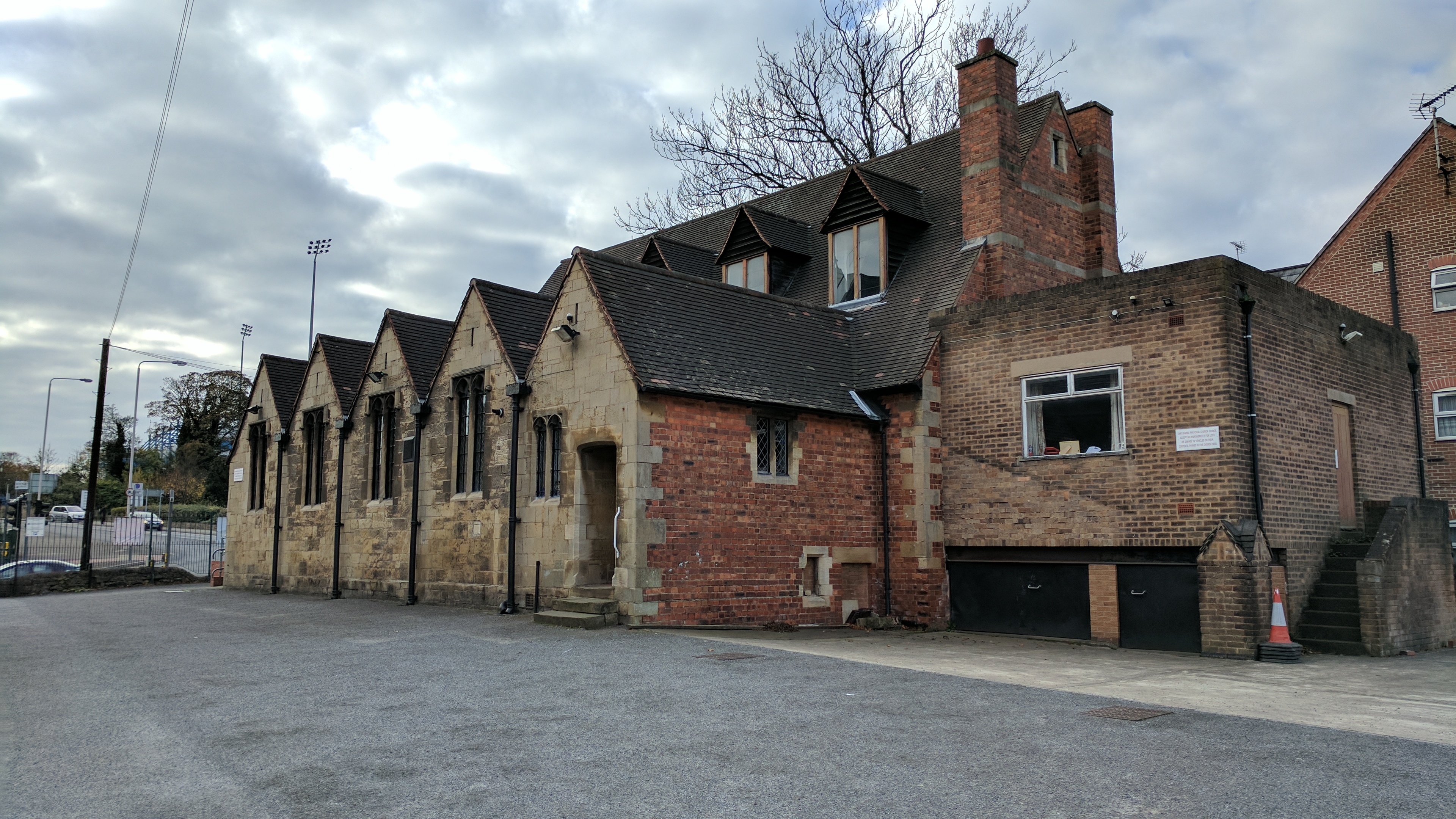 Church Hall 20 Metres North West Of Church Of St Mark Wikidata has entry Q26509963 with data related to this item.